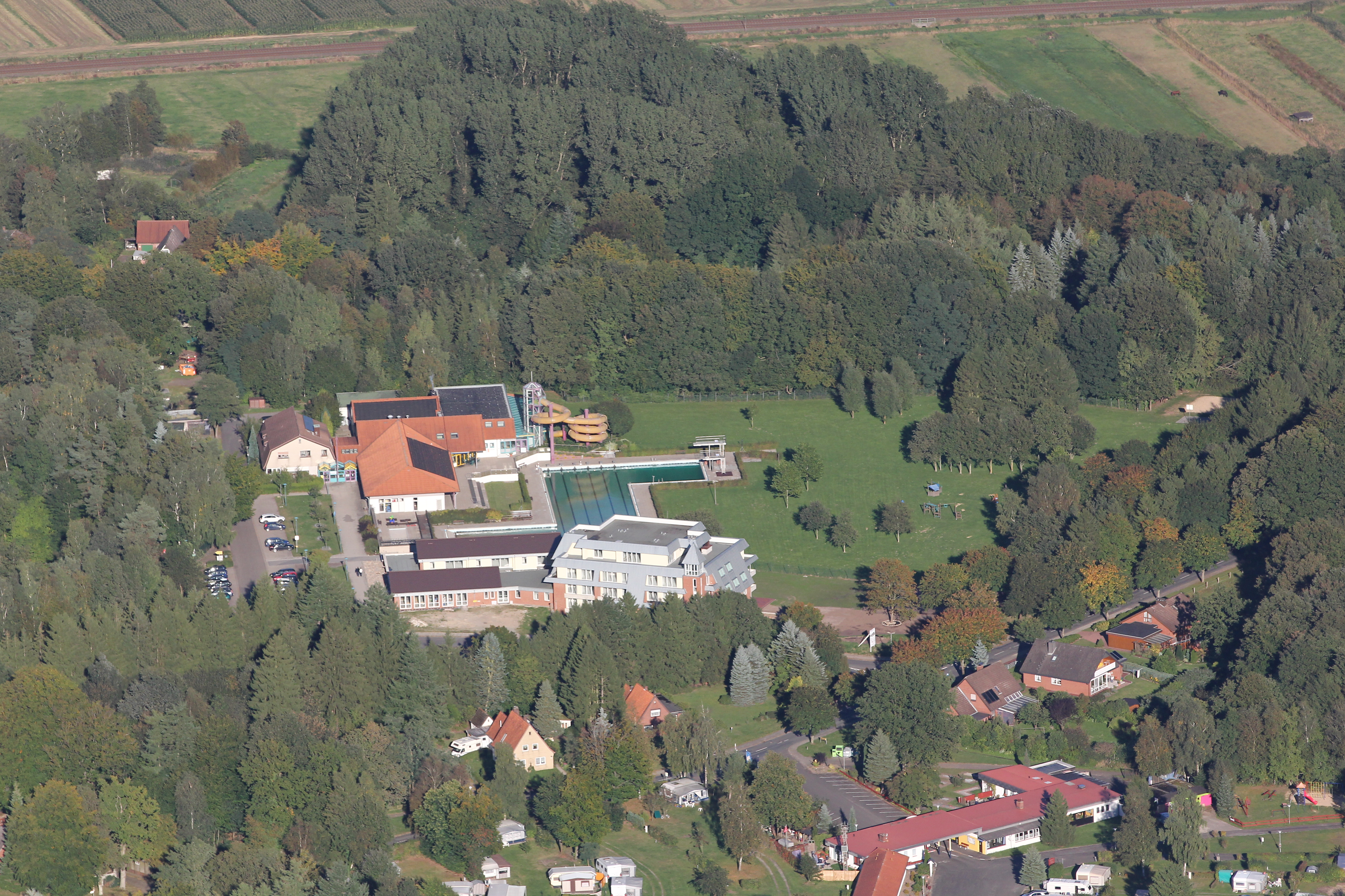 An aerial photograph of Höden, Wingst.